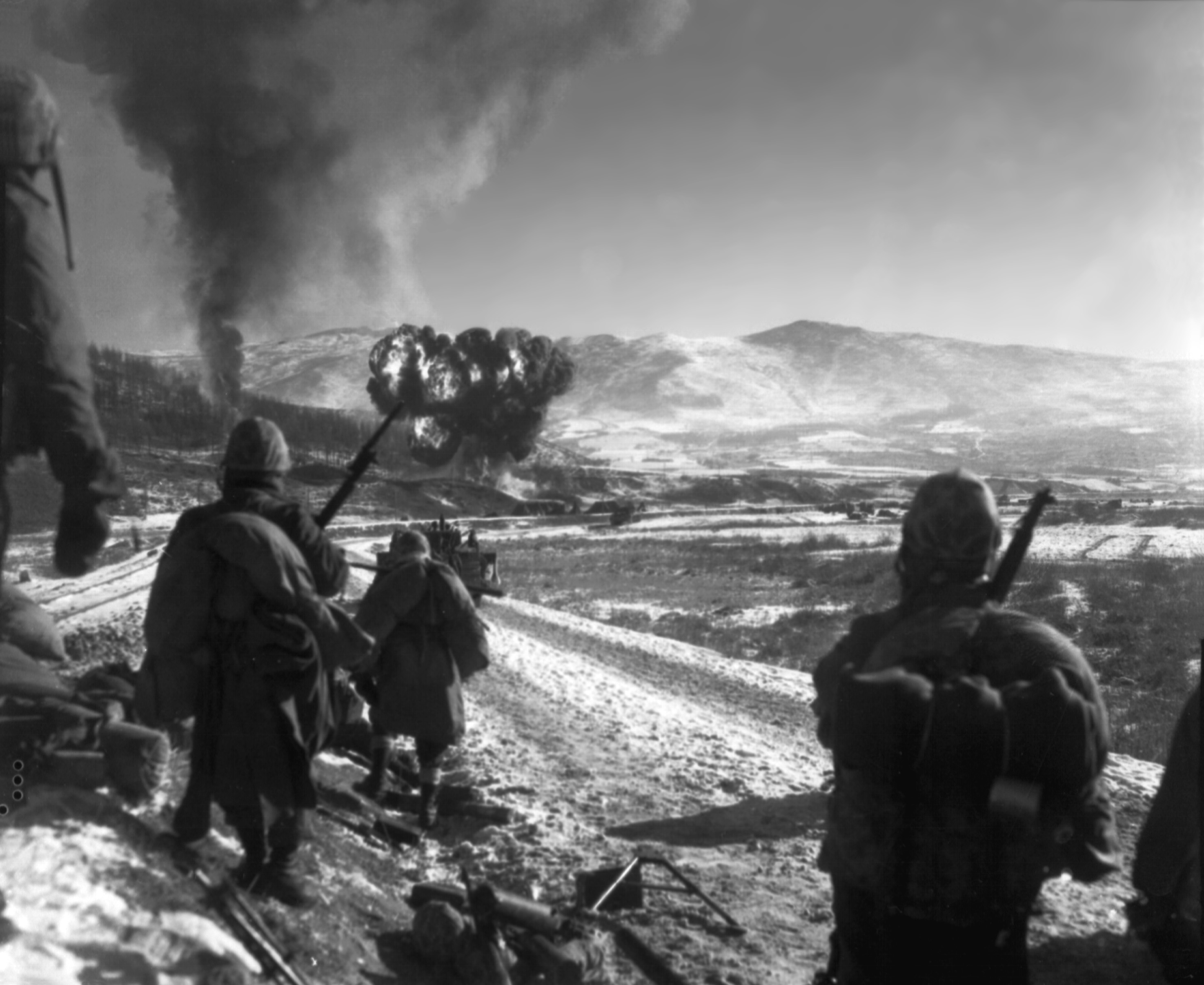 Original caption: U.S. Marines move forward after close-air support flushes out the enemy from hillside trenches. Billows of smoke rise from the target areas.